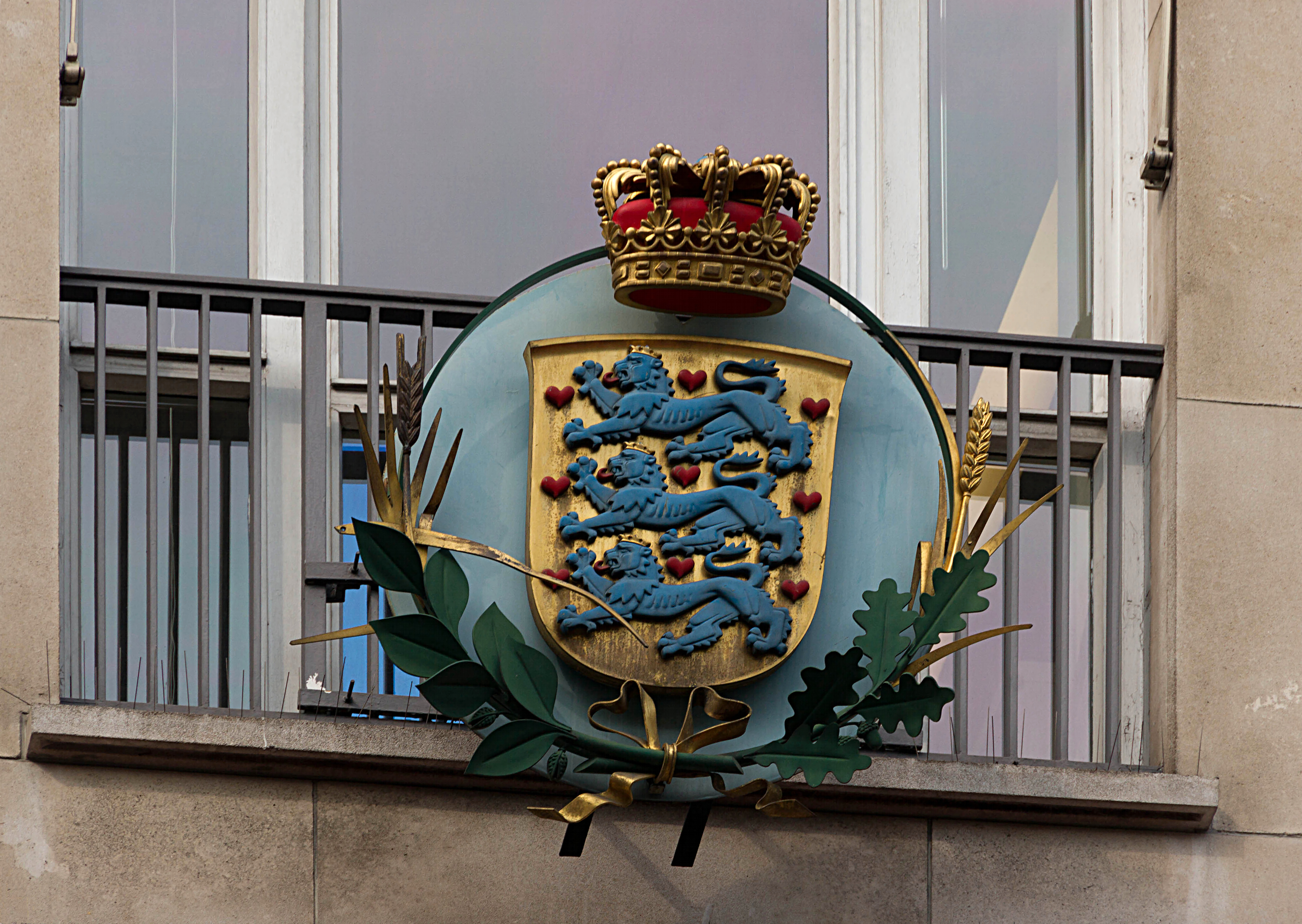 Relief of the CoA of Denmark, at the "Maison du Danemark", Avenue des Champs-Elysées in Paris, France.